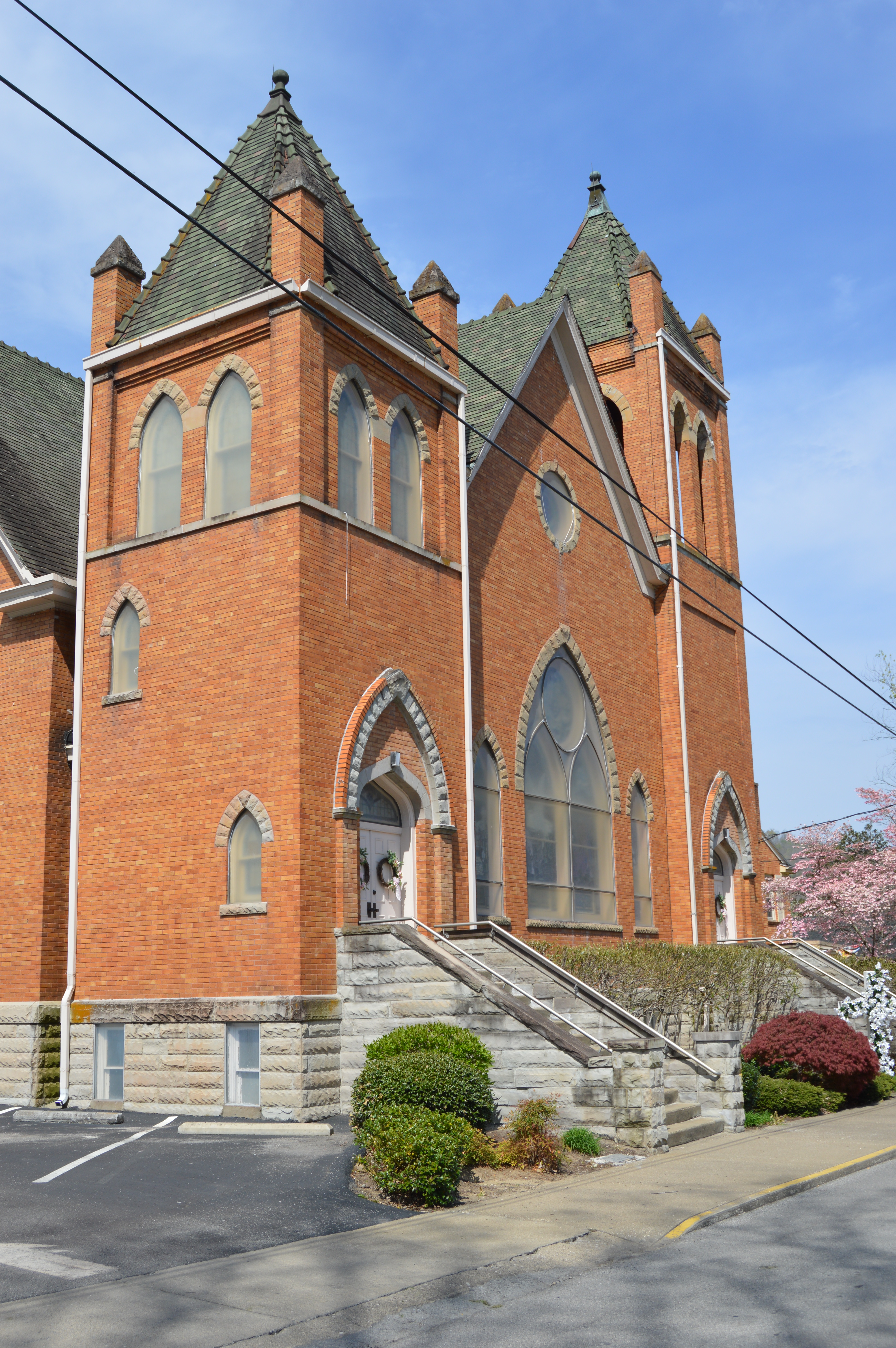 Front of the Prestonsburg Methodist Church, located at 256 S. Arnold Avenue in Prestonsburg, Kentucky, United States. Built in 1917, it is listed on the National Register of Historic Places.